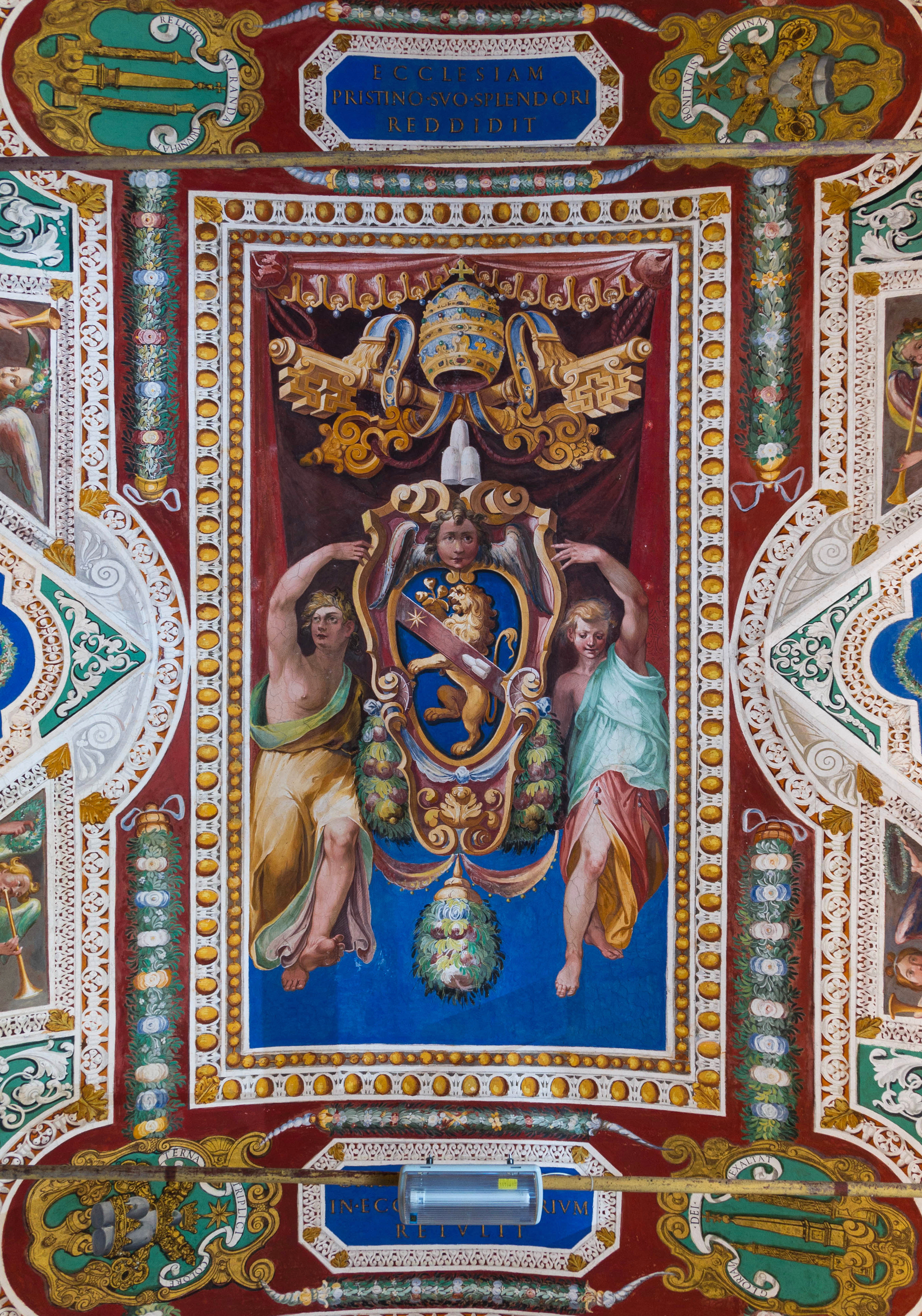 Coat of arms of Pope Sixtus V, ceiling of the Gallery of the Geographical maps.